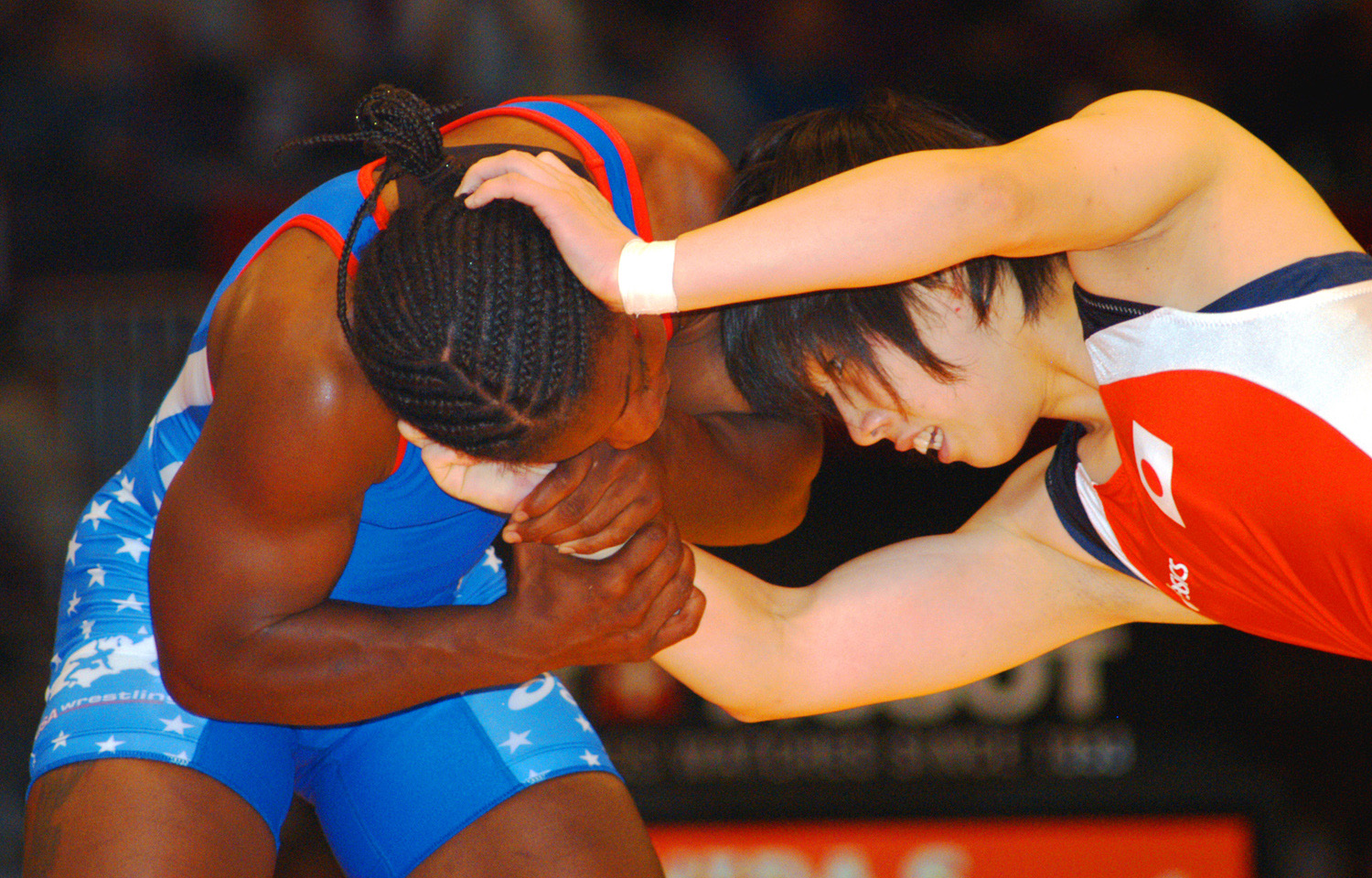 September 22, 2003 Pfc. Tina George has her hands full in gold-medal match against two-time world champion Saori Yoshida of Japan in the women's 121-pound finale of the World Championships of Freestyle Wrestling.